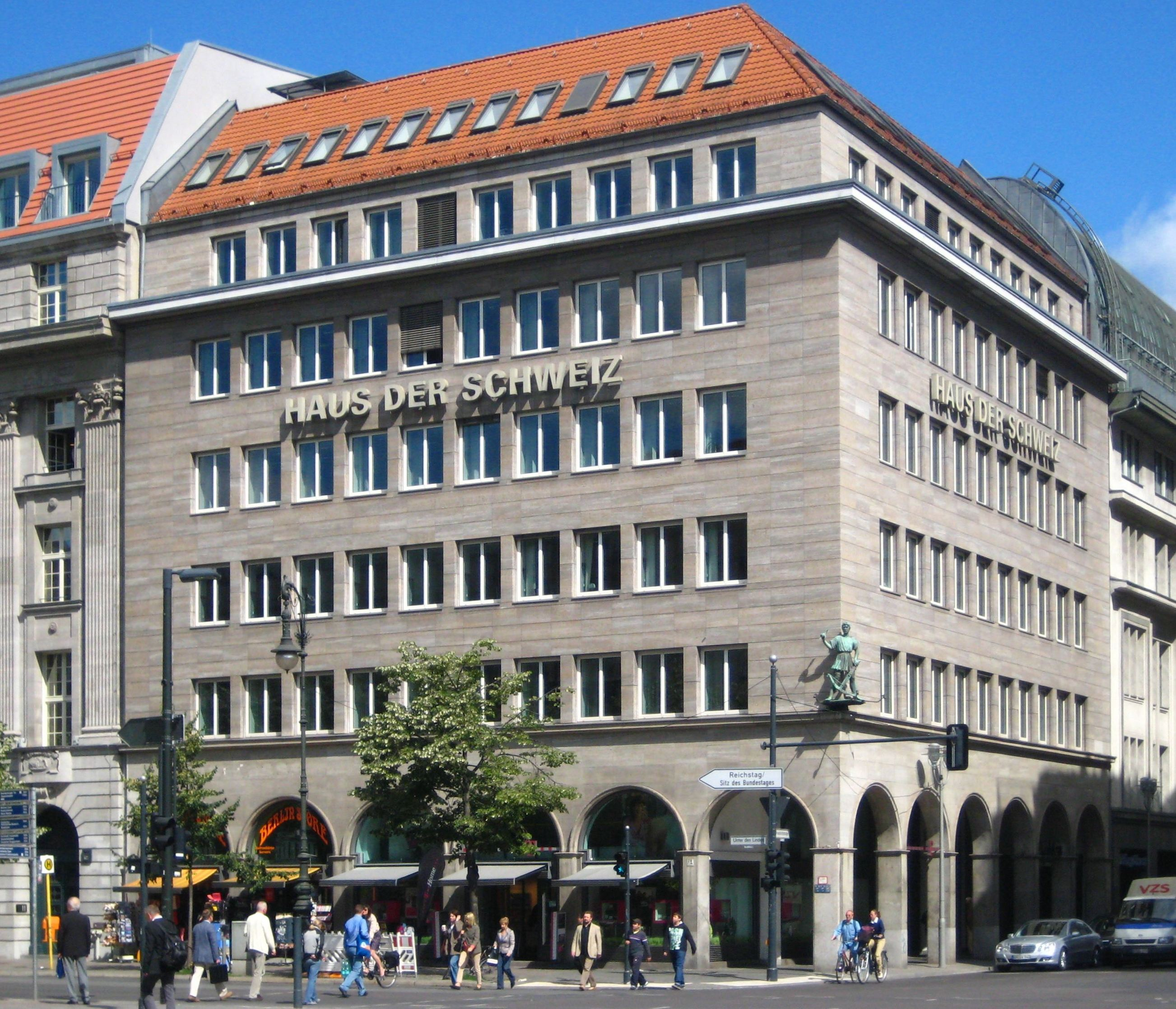 "Haus der Schweiz" ("House of Switzerland"), Unter den Linden 24, in Berlin-Mitte, built 1934-1936 by architect Ernst Meier-Appenzell. This is the only preserved historical building at the corner of Unter den Linden and Friedrichstraße. This prosaic commercial building has only a modest facade decoration which consists of a statue of William Tell and the lettering "Haus der Schweiz". The building is landmarked.